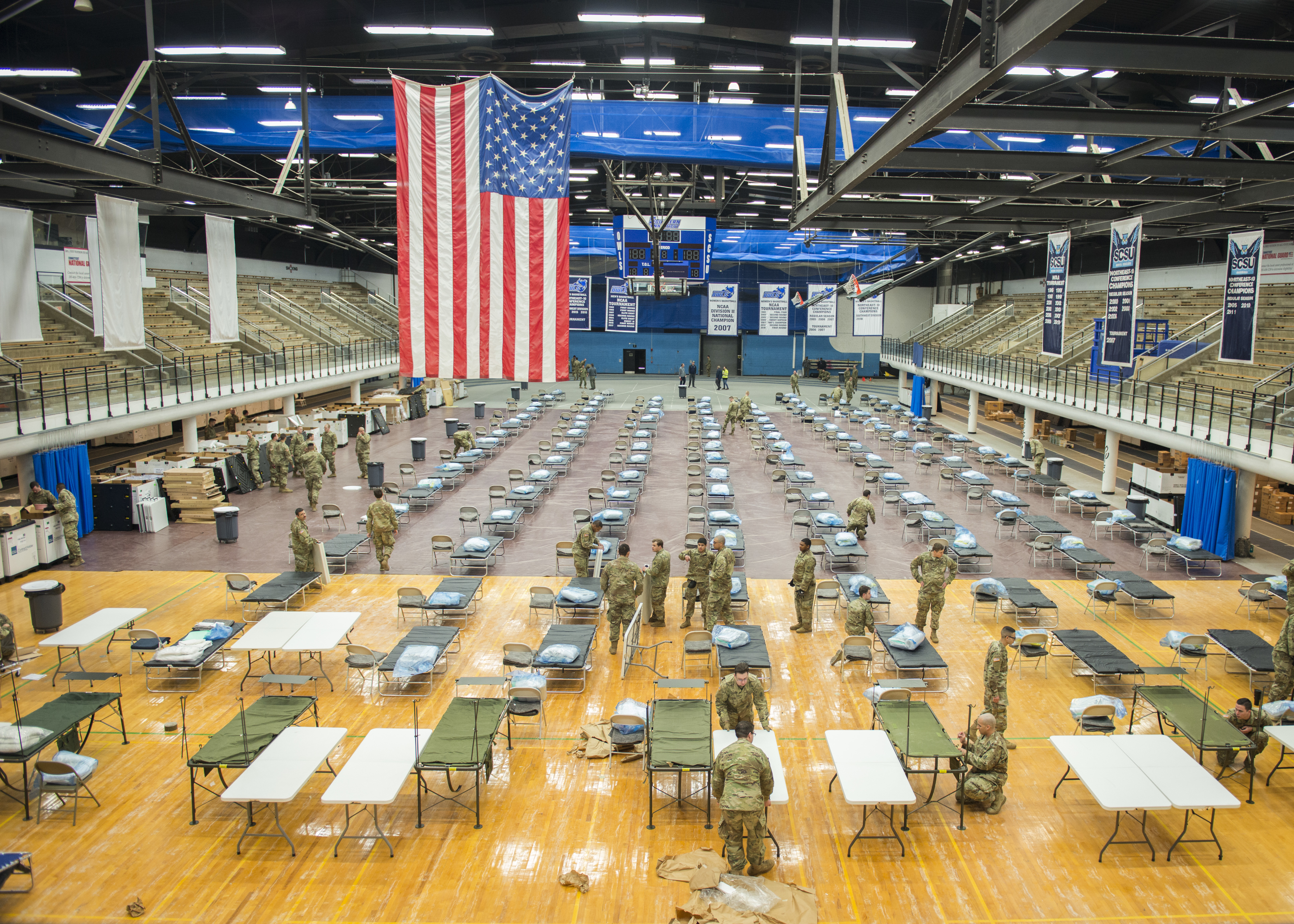 Soldiers from the 1-102nd Infantry Regiment, Connecticut National Guard, set up U.S. Department of Health and Human Services federal medical station equipment at Moore Field House at Southern Connecticut State University in New Haven, Connecticut, April 1, 2020. Connecticut Guardsmen prepared the site for potential patient use by local healthcare providers in response to the COVID-19 pandemic.